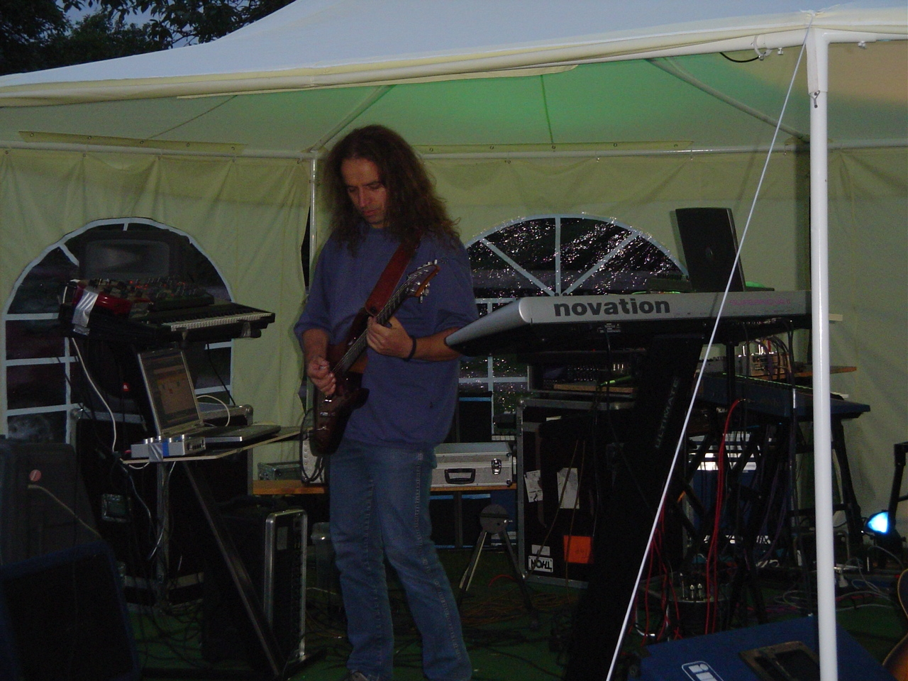 Maxxess at CUE Open Air Festival 2005